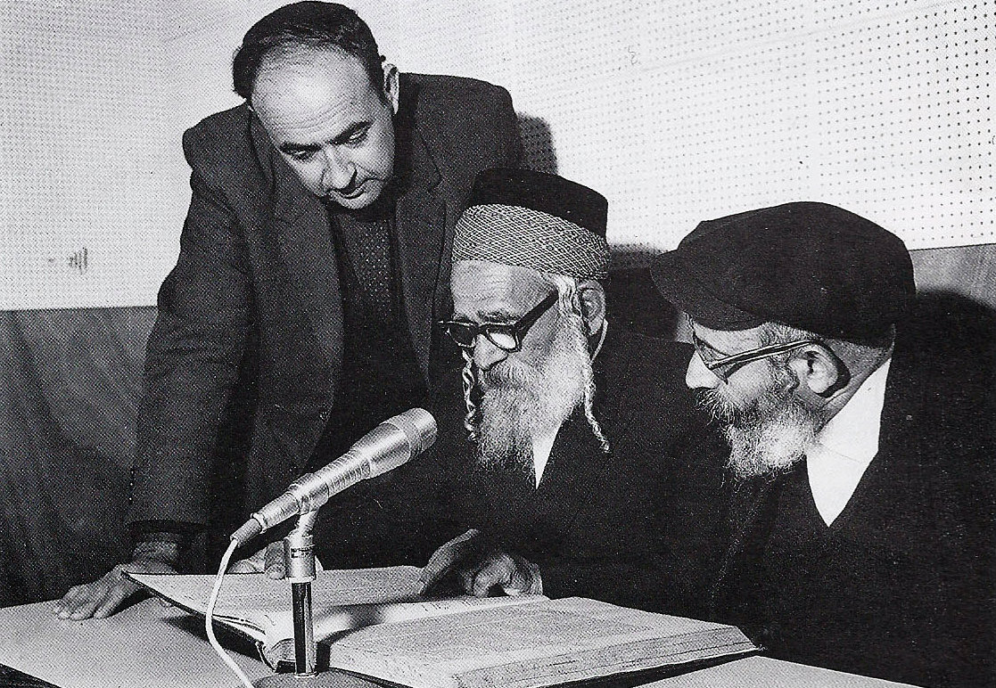 Shlomo Morag recording the Yemenite rabbis Yosef Zadok and Yosef Amar, for the Hebrew University Language Tradition Project